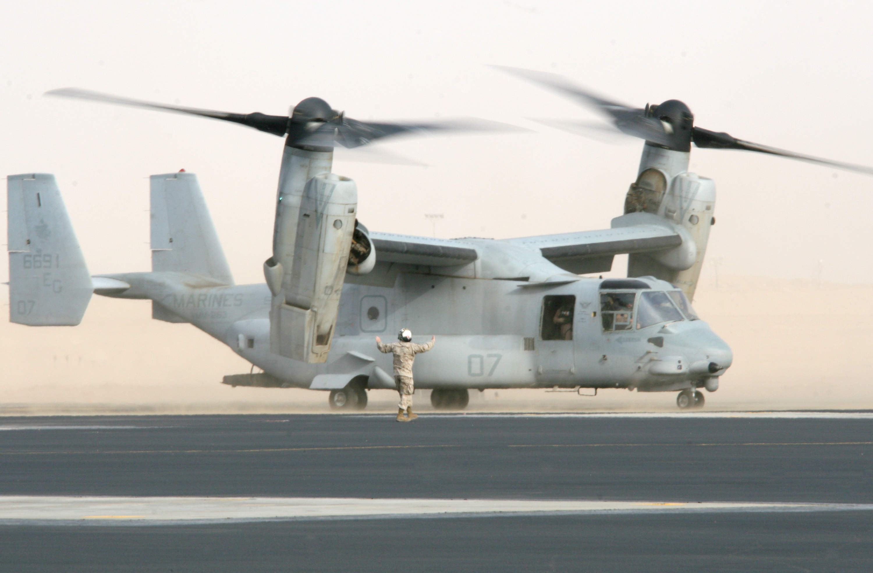 An aircraft handler from Marine Medium Tiltrotor Squadron 263 (Reinforced), 22nd Marine Expeditionary Unit, directs an MV-22B Osprey aboard Udairi Army Airfield, Kuwait, Aug. 10, 2009. Marines from VMM-263 (rein), the Aviation Combat Element for the 22nd MEU, joined other elements of the MEU ashore for sustainment training aboard Camp Buehring, Kuwait. The 22nd MEU is serving as the theater reserve force for U.S. Central Command.